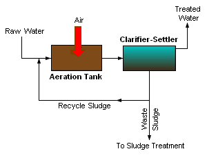 This is an upgraded version of Aerated Sludge 1.jpg which was uploaded by Kekel on July 4, 2006. The reasons for upgrading the image are: (1) To convert the lossy jpg (which already has visible artifacts) to the non-lossy png format. (2) To shorten the width of the image (from 417px to 300px) so that it can placed on the right side of a Wikipedia article and still have room for the article text. {3) To rename it from "Aerated Sludge 1" to the more appropriate "Activated Sludge 1", since it is now and will continue to be used in the Activated Sludge article. The actual changes to the original version are quite minor and the actual appearance of the upgrade version is almost identical with the original. I will retain the same license as used by the original uploader.